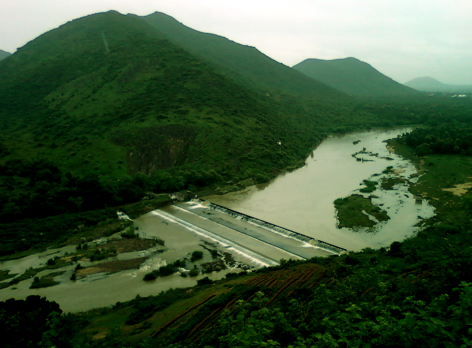 A view of Denkada Barrage at Saripalli in Vizianagaram District of Andhra Pradesh